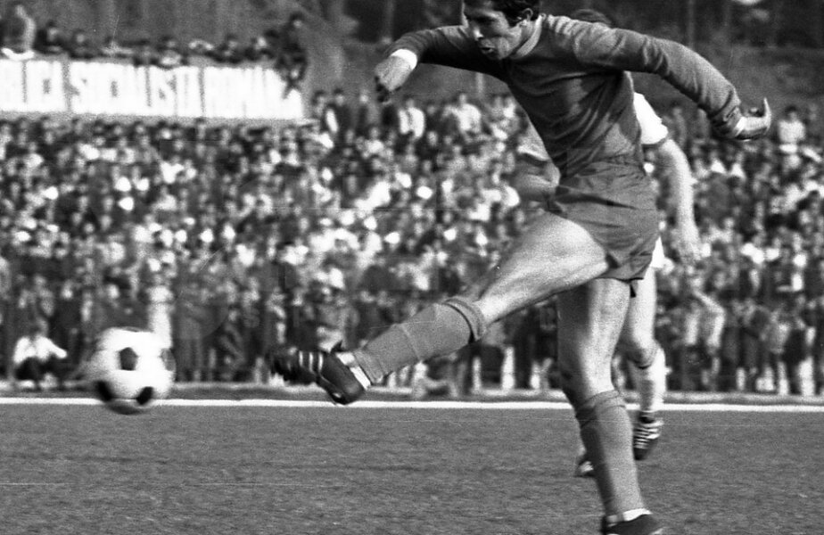 Augustin Deleanu in action for Dinamo Bucharest